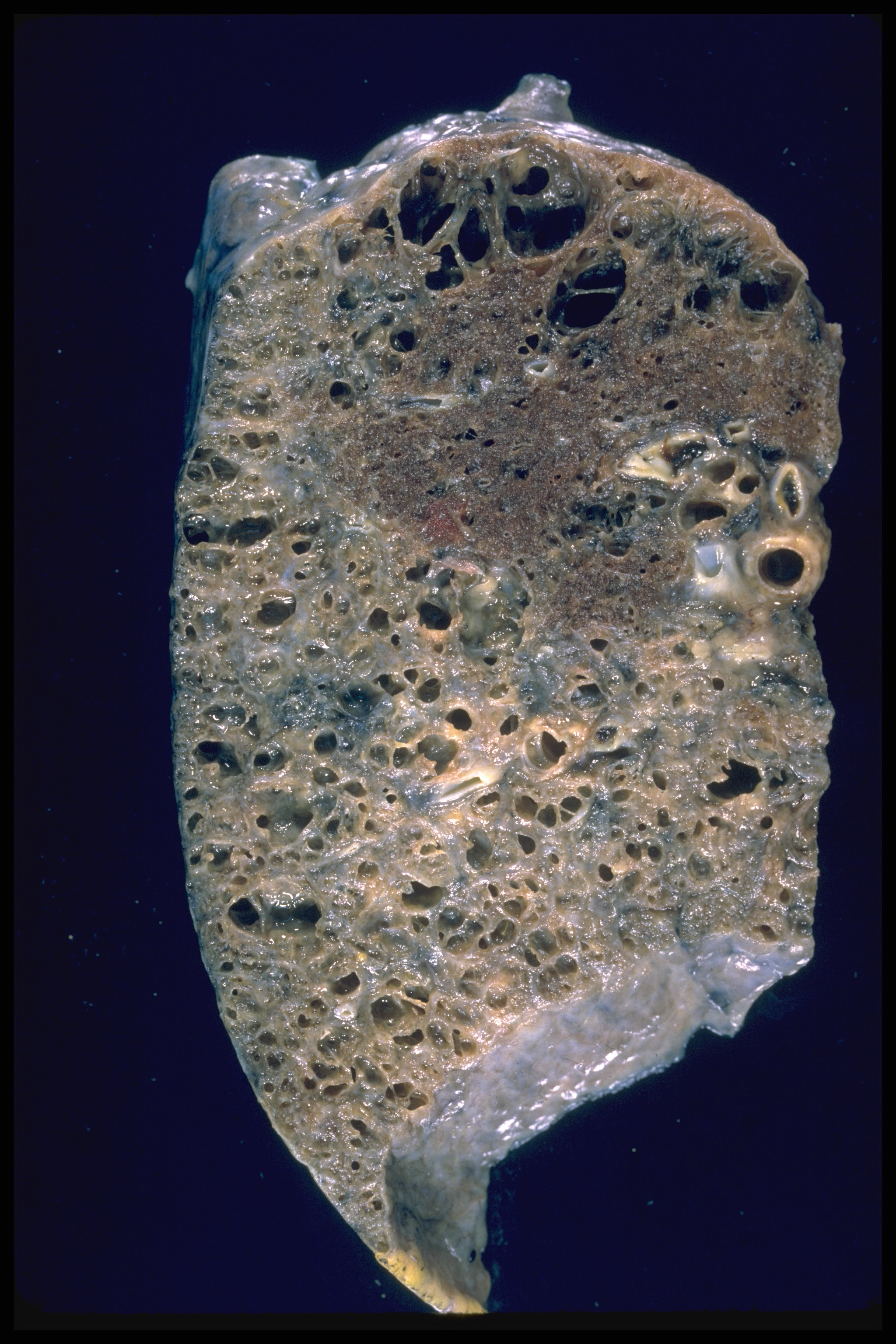 Sarcoidosis - Honeycombing and emphysema In addition to the extensive honeycombing seen in the lower portion of this lower lobe there is bullous empysema seen at the apex. Honeycombing consists of cystically dilated airways separated by scar tissue resembling the honeycomb of bees. It is a non-specific end stage of many types of interstitial lung disease. Emphysematous spaces are separated by thin septae and have some resemblance to a spider's web.